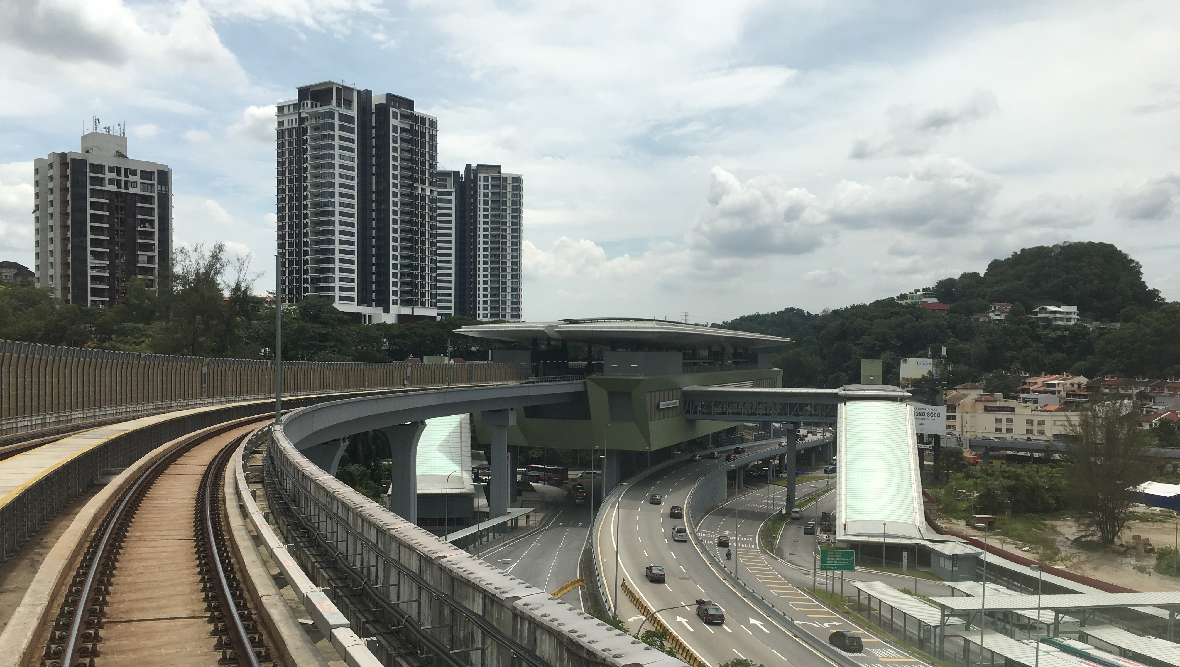 View of the Pusat Bandar Damansara MRT Station from the train. The station is situated above the Sprint Expressway's Maarof Interchange.